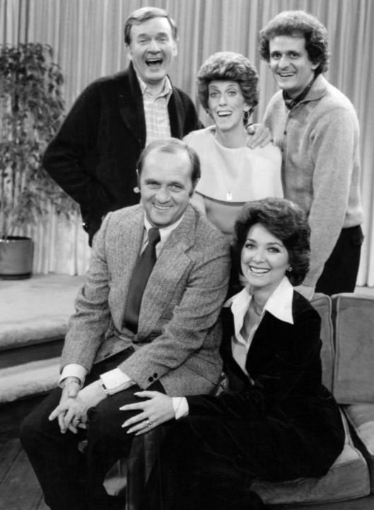 Publicity photo of the cast of The Bob Newhart Show. Standing from left: Bill Daily (Howard Borden), Marcia Wallace, (Carol Kester), Peter Bonerz (Jerry Robinson). Seated: from left: Bob Newhart (Bob Hartley), Suzanne Pleshette (Emily Hartley).